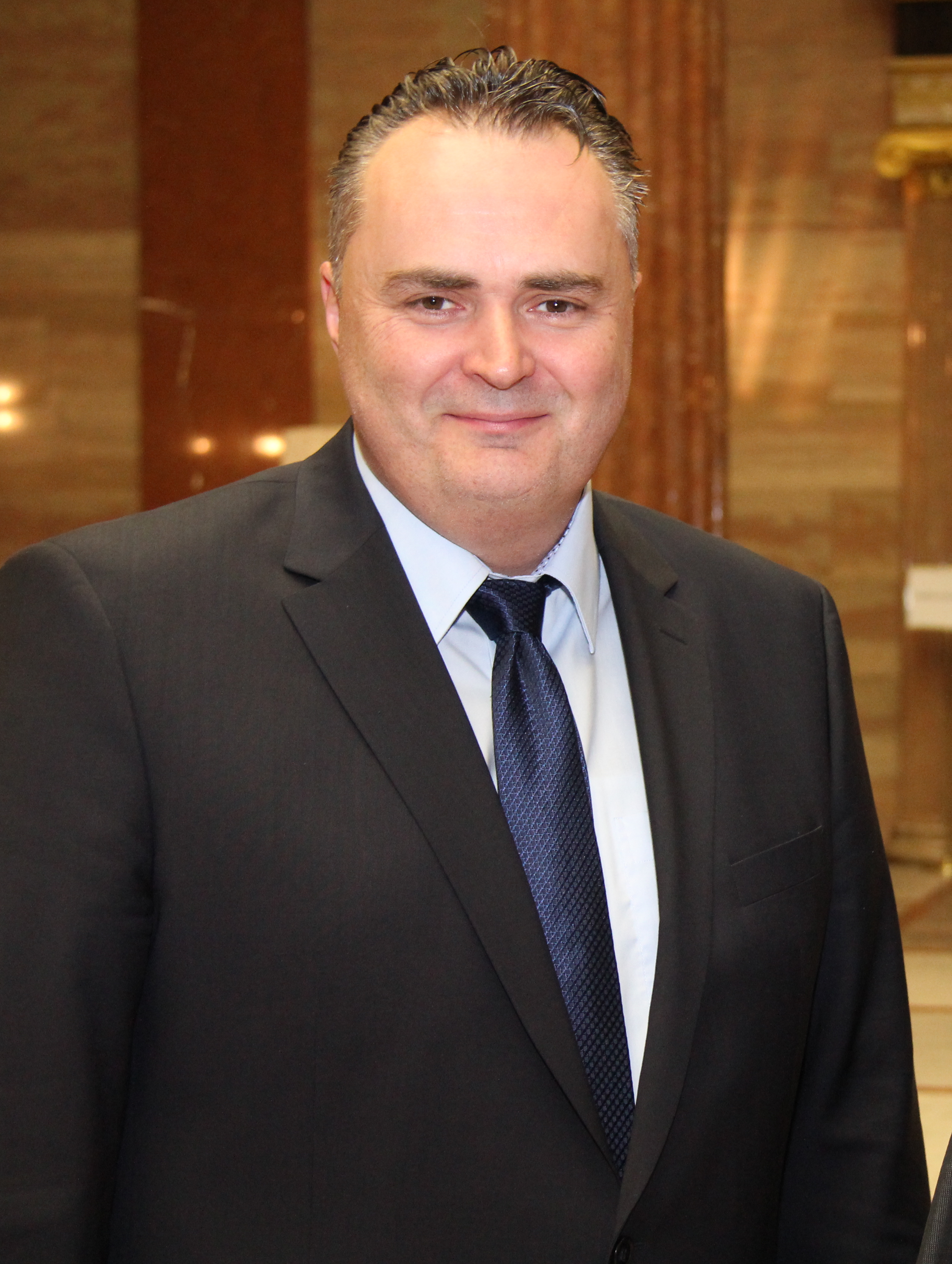 Hans Peter Doskozil, Austrian politician (SPÖ) and Minister of National Defence and Sport (Austria)